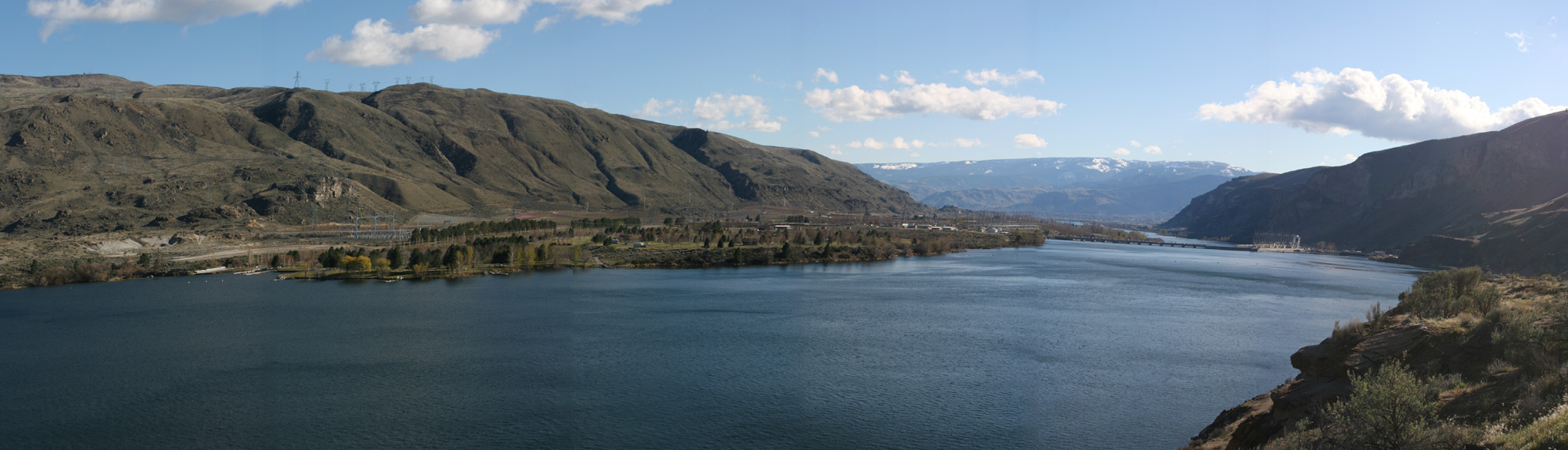 A panorama of Lake Entiat, also known as Rocky Reach Reservoir. The reservoir is formed behind Rocky Reach Dam (visible near center of picture), a hydroelectric dam on the Columbia river in north central Washington. Located a few miles upriver from the city of Wenatchee, with Lincoln Rock State Park on its eastern shore. Category:Lakes of Washington (state)